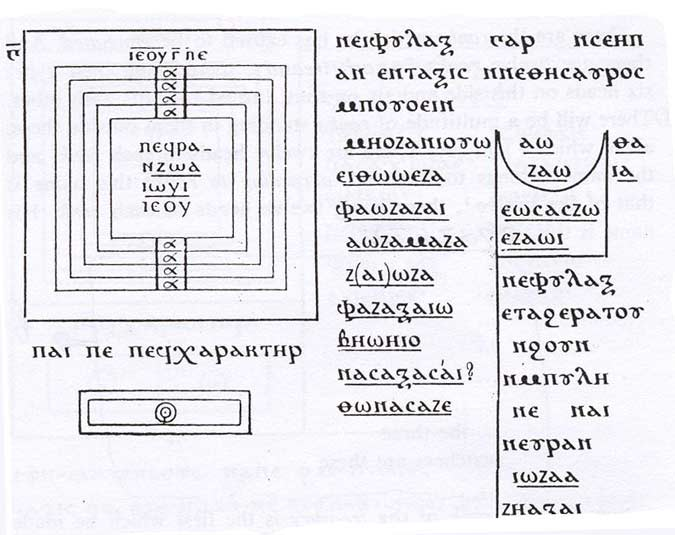 Magical Diagram from Books of Jeu